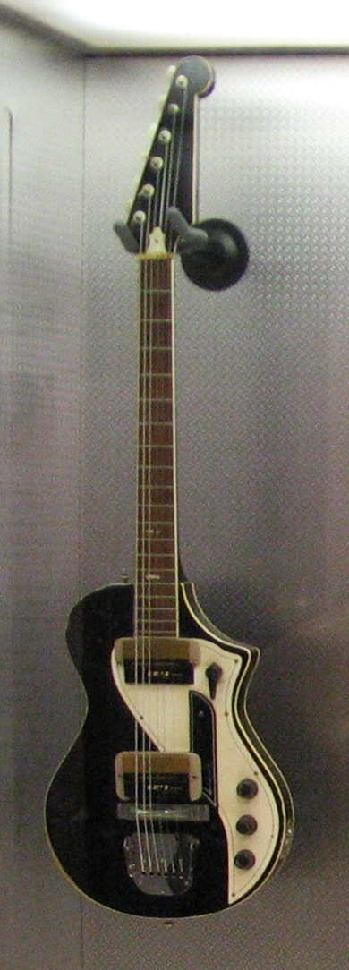 Guyatone LG-60B (1959) [1][2][3][4][note 1][note 2][note 3] from Rory Gallagher's Collection, exhibited at 'Born to Rock' at Harrods Notes ↑ Drifter LG50. Burns London. Drifter LG50, a reissue of Burns-Weill Fenton made after Guyatone/Antoria used by Hank Marvin in the late 50s, will be shipped from Burns London in Nov. 2010. ↑ Supro Dual Tone (ca.1957) is often referred as the design origin of Guyatone LG-60. For details of Supro model, see: Will Ray. "Resurrecting a 1957 Supro Dual Tone". Premier Guitar (March 2012). ↑ Also Teisco J2 (1954), Guyatone LG50 / Star EG80 (1959), Vox Shadow (1962), Freshman 5800 (c.1964) by Selmer, Yamaha SG-60T (1973), etc. share similar design. References ↑ Guyatone LG60B (1959). Instrument Archive, Rory Gallagher - The Official Website. ↑ Rory Gallagher tribute page (in Japanese). nero. Summary: In 1960s, Rory Gallagher used a small Guyatone LG-50H as a slide guitar on stage a few times, but he soon exchanged it with Telecaster. In 1974 when he visited Japan for concert tour, he looked for his old small Guyatone model. And he found similar black Guyatone at local music store when he returned to Ireland. This Guyatone LG-60B may be one of these. ↑ "Star Electric Guitar" in (1960) Ibanez Catalog, p. 6. “EG 80-B Selected solid wood body beautifully finished in ebony black, hand rubbed and hand polished. Size and weight are same as No. 80-H.”, “EG 80-H Solid maple body, hand polished, 2 Mic., Control for Volume 2, tone Mic. Switch. hardwood fingerboard. length: 36 6/8" width:11 1/2" weight: 5 3/8 (lbs.)” ↑ Guyatone/Antoria LG50 - The inspiration for the Burns-Weill Fenton. Archived from the original on 2010-10-23.